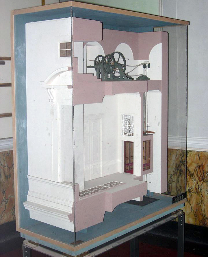 modellino in scala del sistema meccanico della "Sedia volante" nella Reggia di Caserta